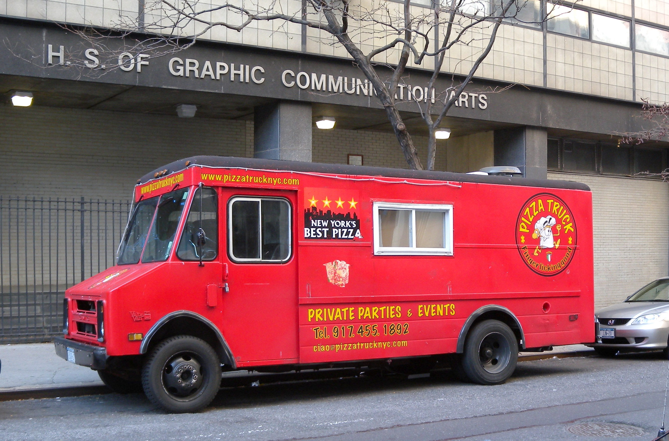 Looking west across 50th Street at pizza truck, allegedly with pizza oven aboard, parked in front of high school.